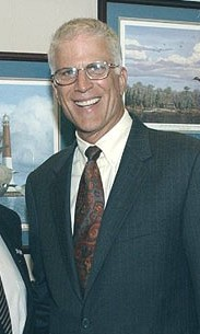 Actor Ted Danson (cropped from original)